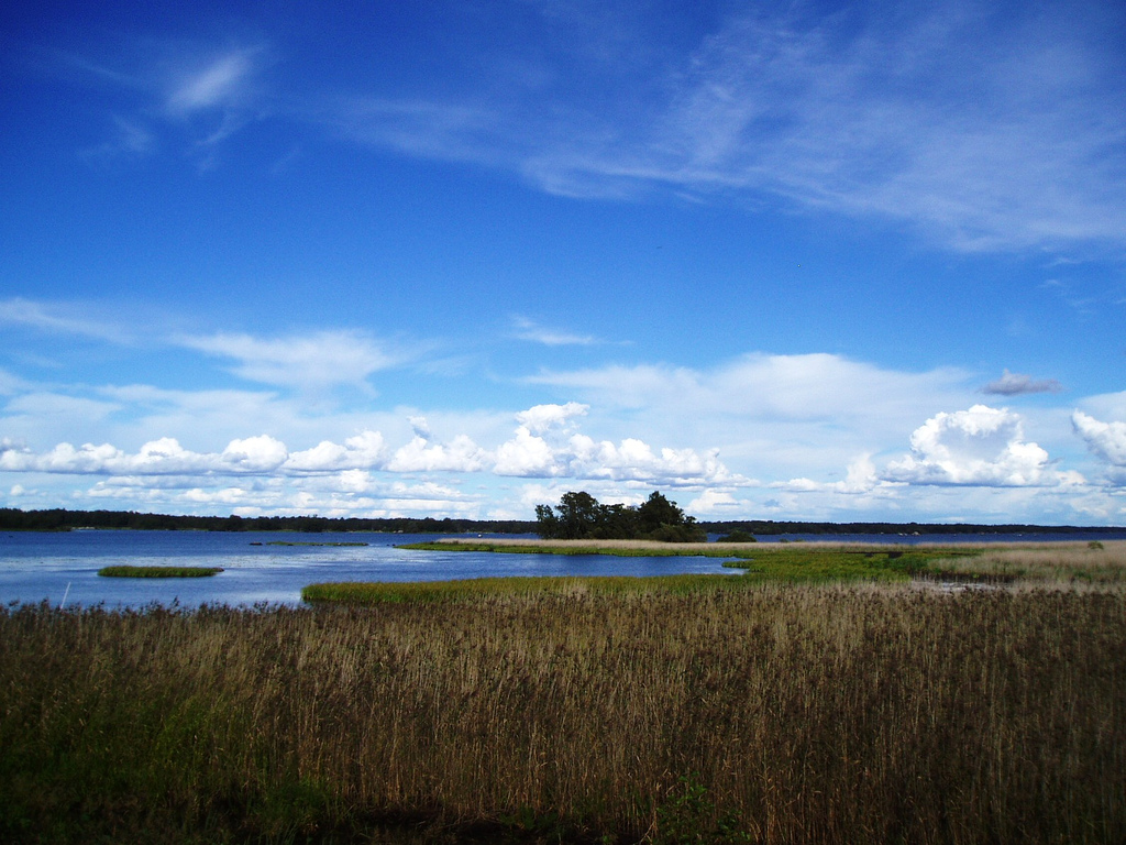 lake Hjälmaren, Sweden, View from Örebro over bay Hemfjärden